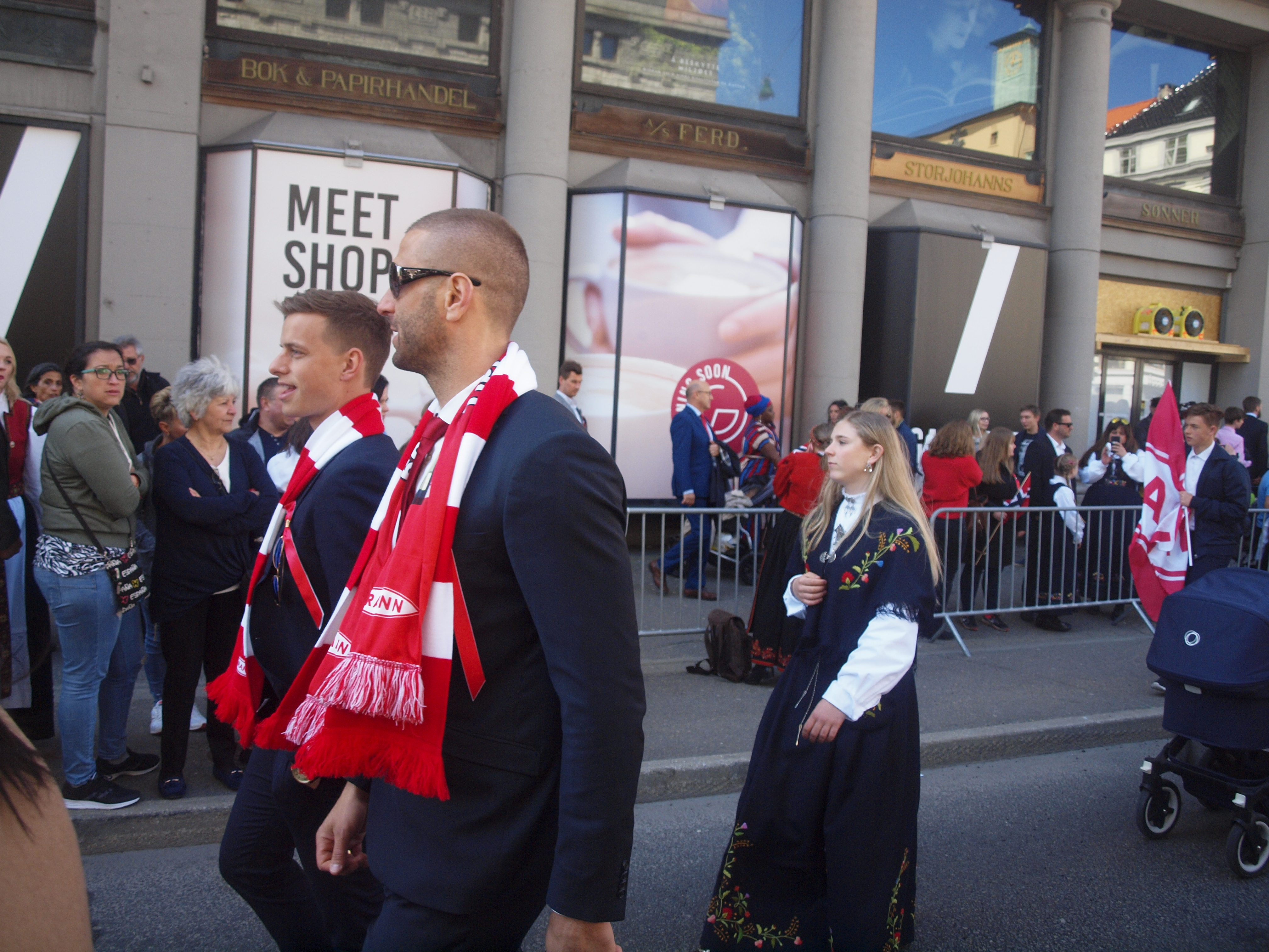 Jonas Grønner and Azar Karadason 17th of May Parade in Bergen - 2018.